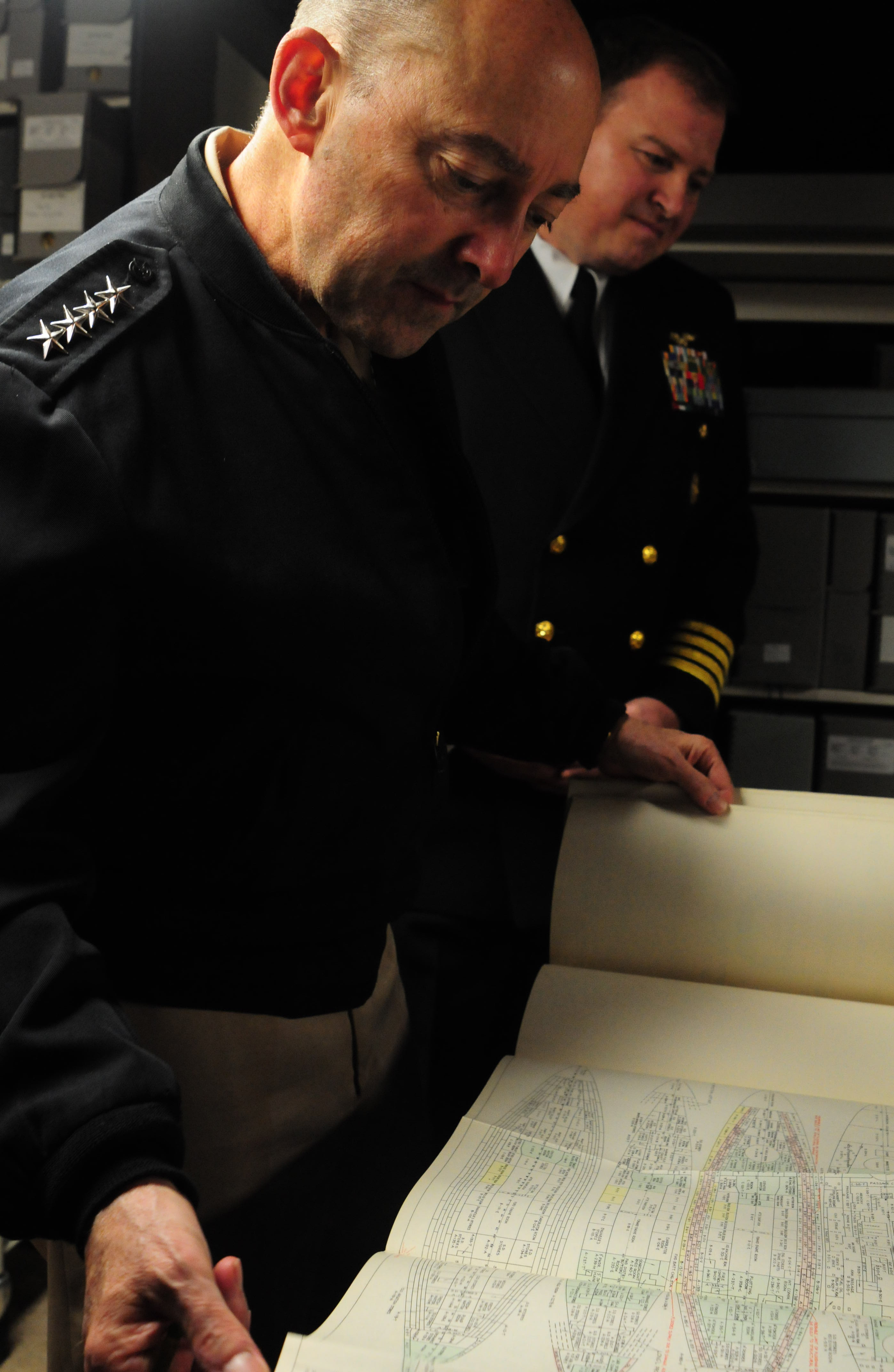 Adm. James G. Stavridis, commander of U.S. European Command and Supreme Allied Command, Europe, tours Naval History and Heritage Command with Capt. Henry J. Hendrix, director of NHHC. Stavridis toured the rare book room, the Naval Library and received an oral history on Odyssey Dawn. (U.S. Navy photo by Mass Communication Specialist 2nd Class Gina K Morrissette/Released) Unit: Navy Media Content Services DVIDS Tags: heritage; deployed; fast; united states; tradition; america; freedom; commerce; navy; Sailors; military; U.S. Navy; liberty; war fighters; CHINFO; protect; worldwide; sea lanes; on watch; war fighting; flexible; preserve peace; deter aggression; defend freedom; operate forward; be ready; war fighting first; NMCS; navy media content service